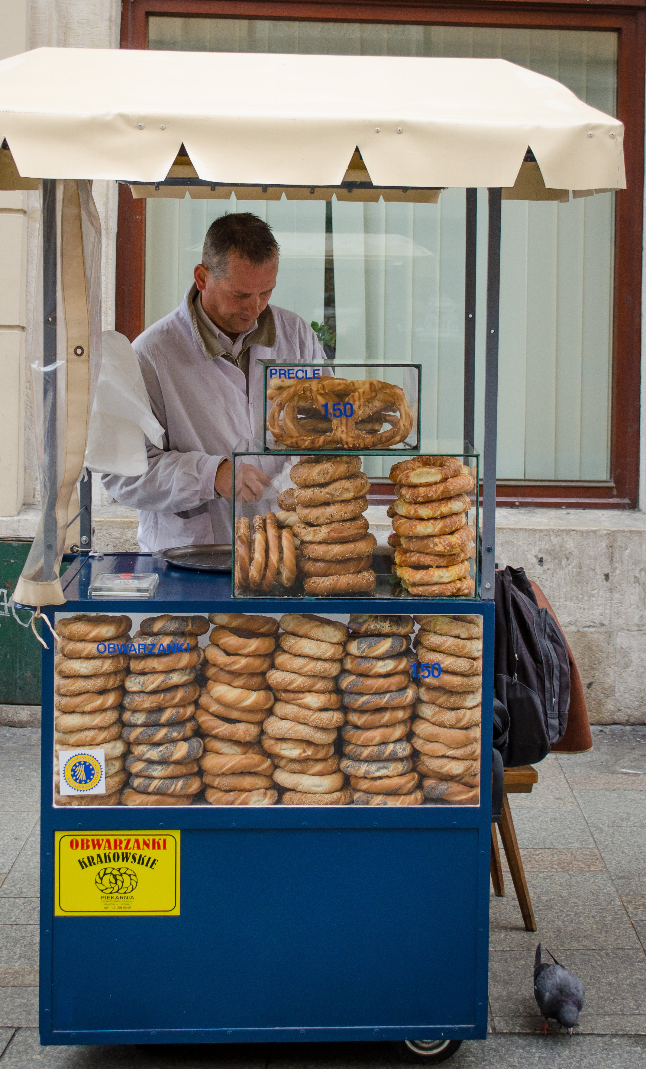 Obwarzanki and pretzel salesman in Krakow